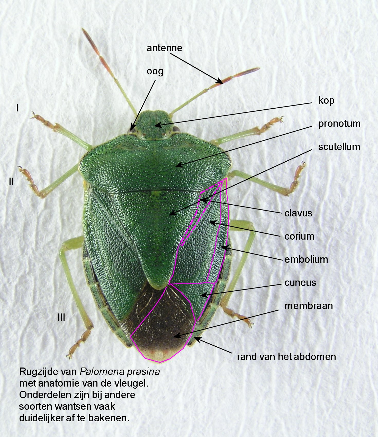 Shield bug with anatomical labels in Dutch.